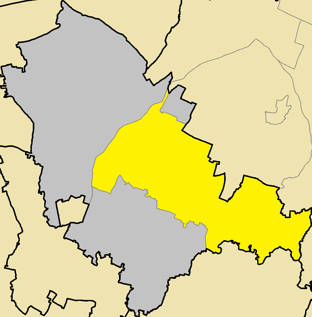 Agia Paraskevi in Lakatamia.